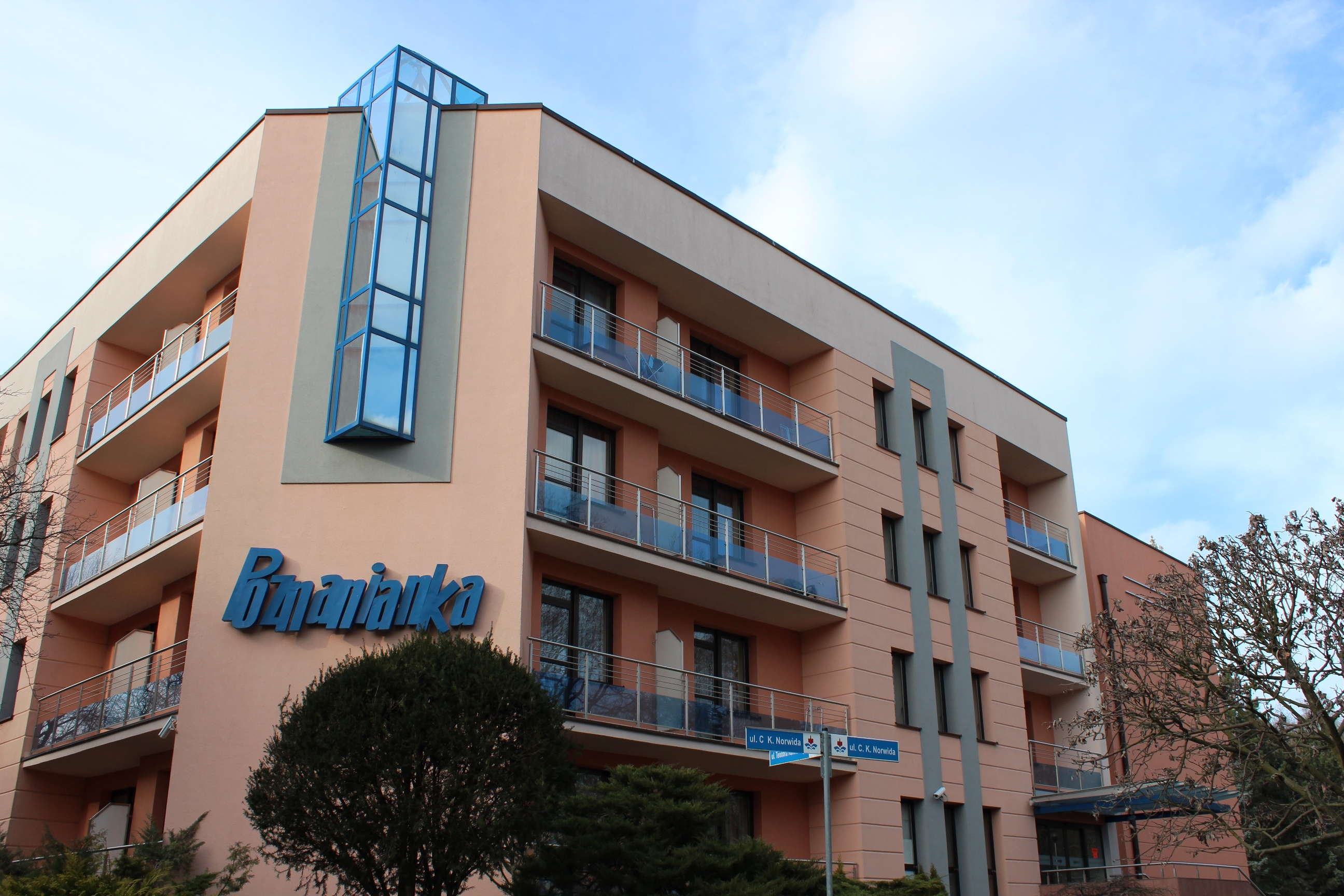 Poznanianka Sanatorium in Kołobrzeg